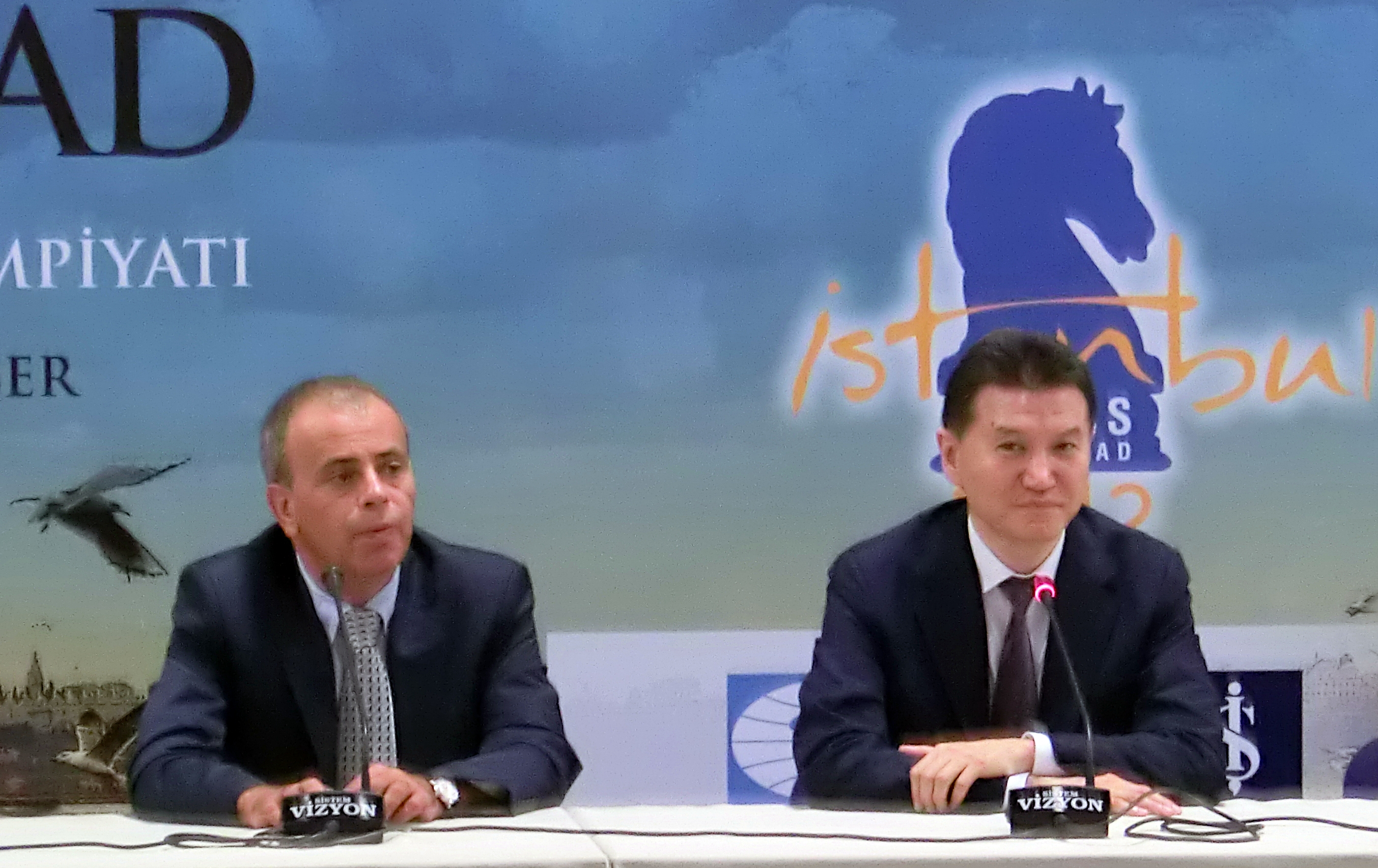 Press conference at the 2012 Chess Olympiad in Istanbul (Ali Nihat Yazıcı and Kirsan Ilyumzhinov)